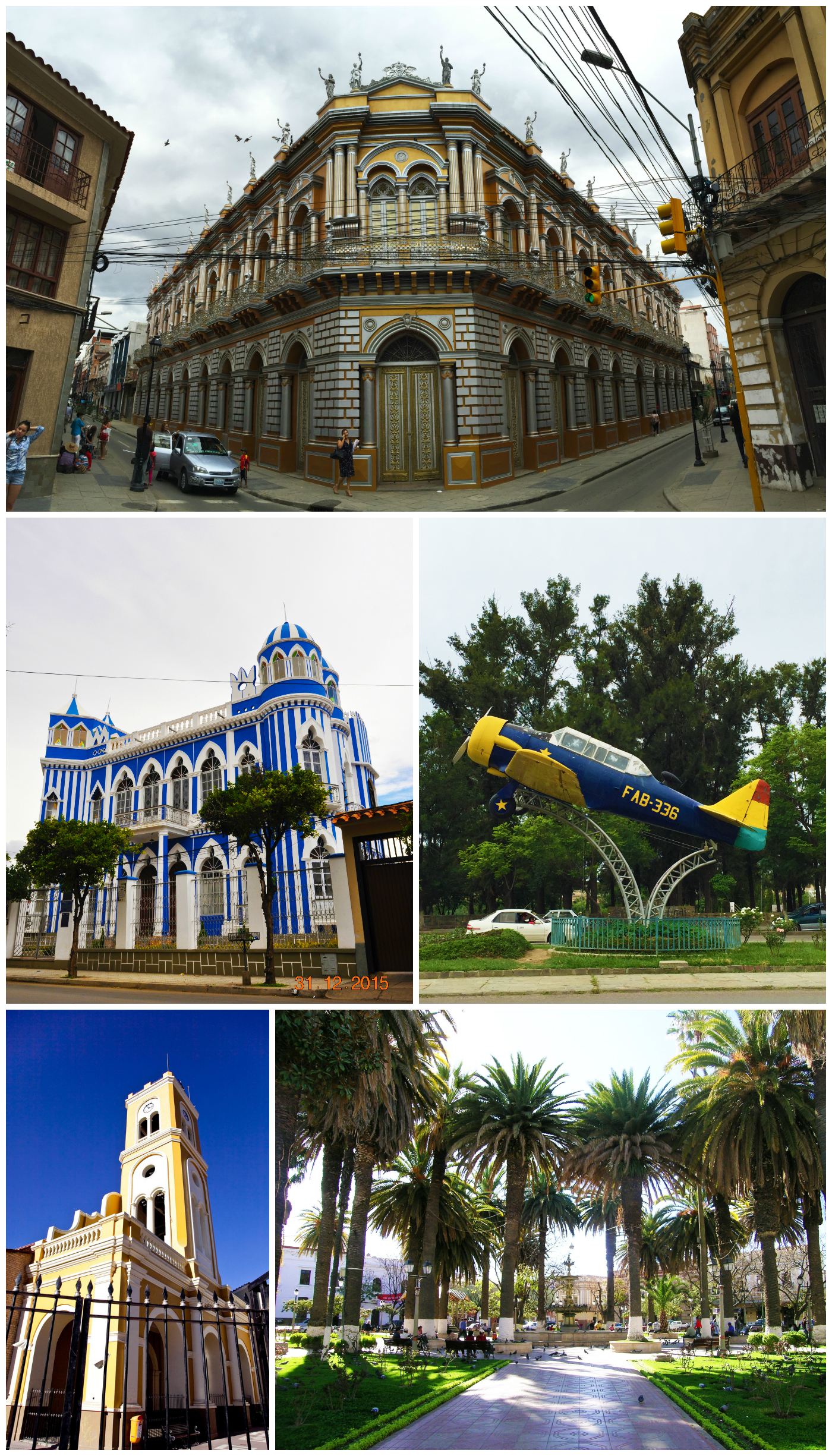 Montage of Tarija, Bolivia.